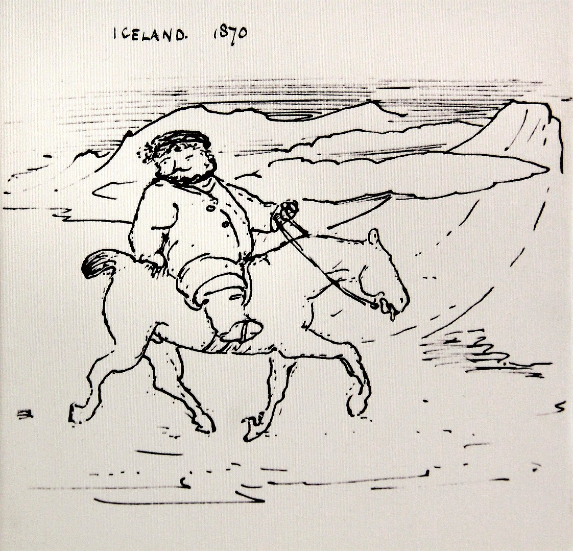 Cartoon of William Morris riding a pony on his first expedition in Iceland in1870, drawn by Edward Burne-Jones